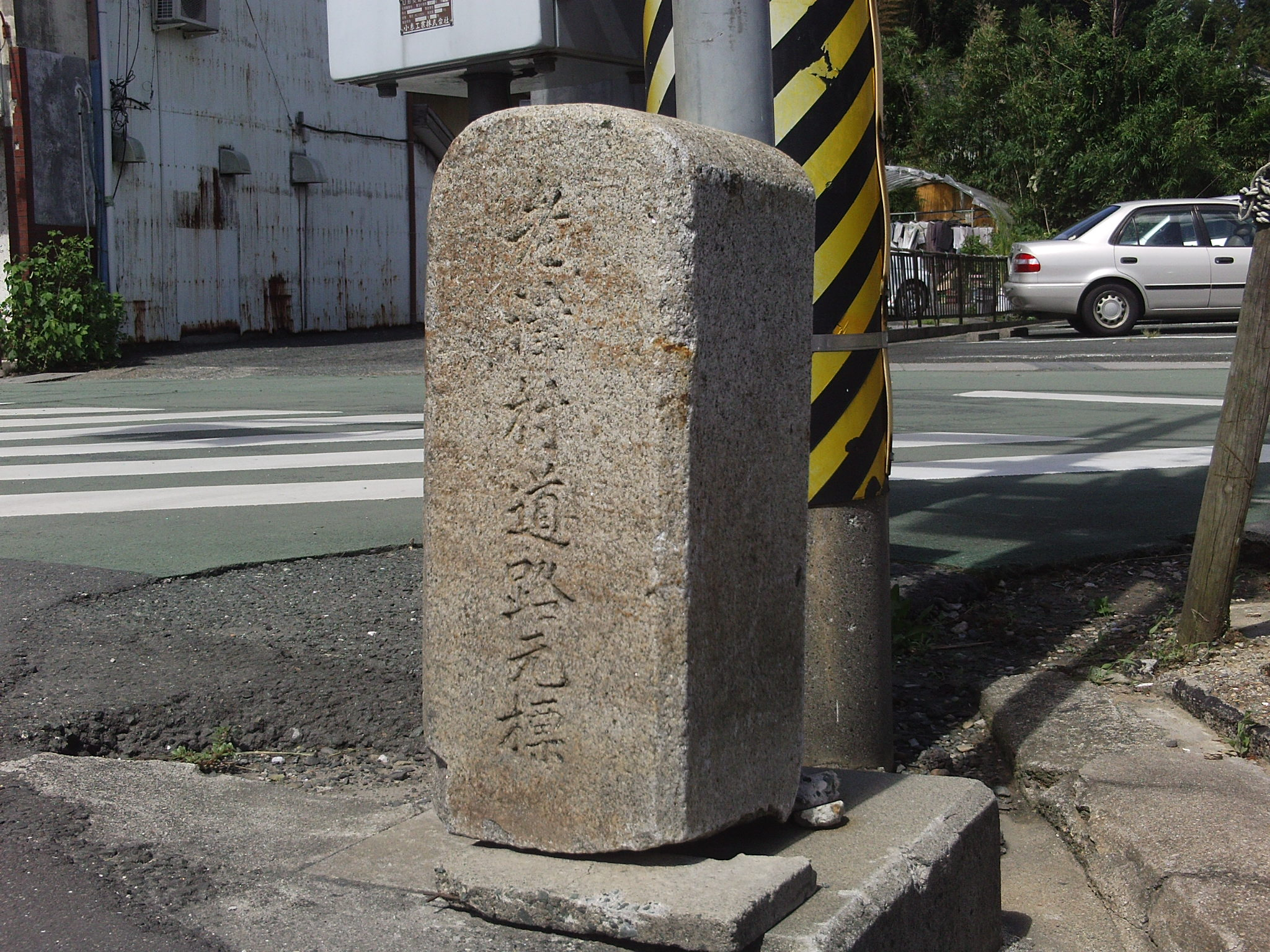 Kilometre zero of Oitsu village. (Oitsu village, Atsumi-gun, Aichi.)